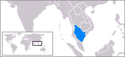 Locator map showing the location of the Gulf of Thailand.